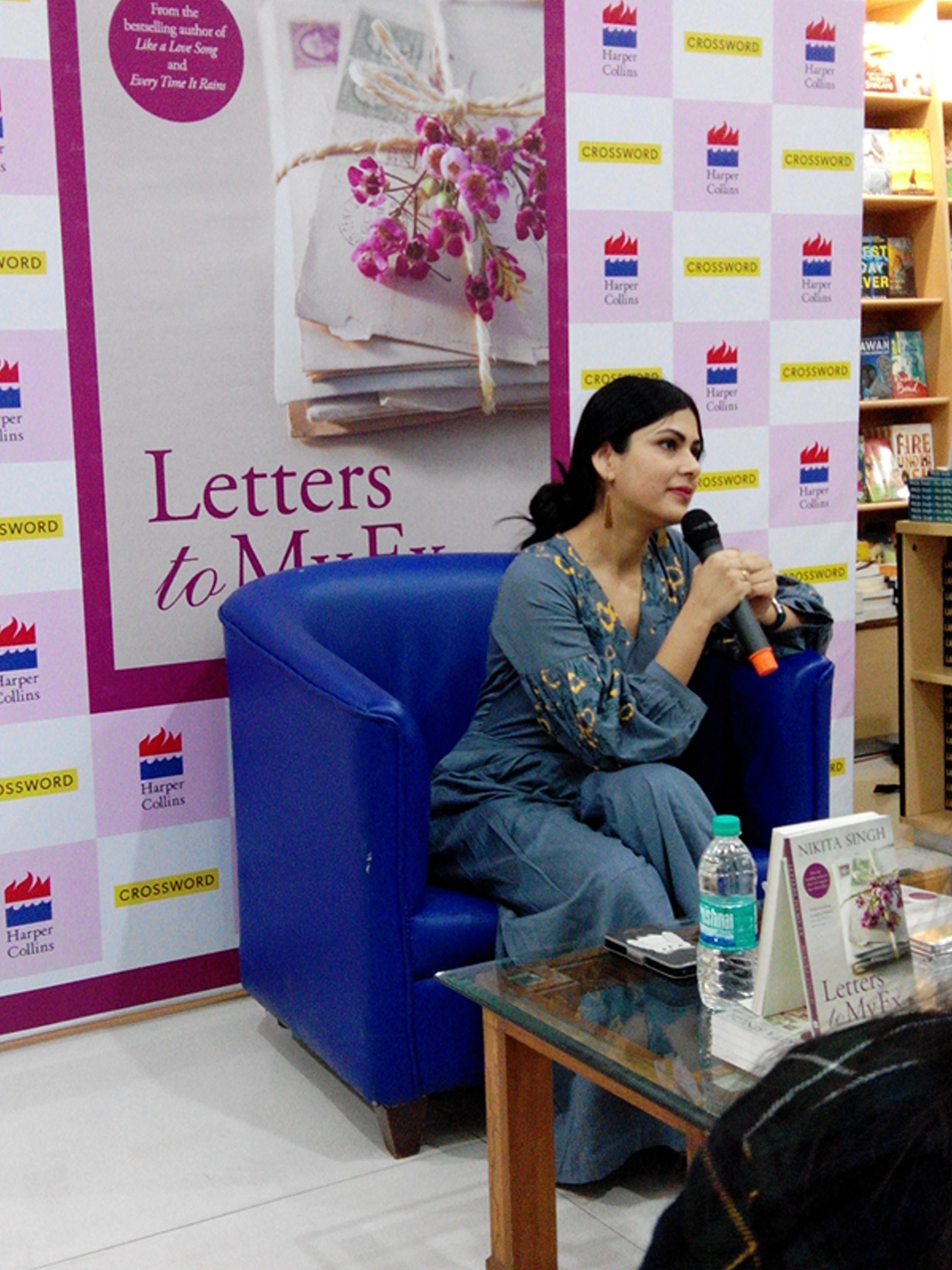 Nikita Singh